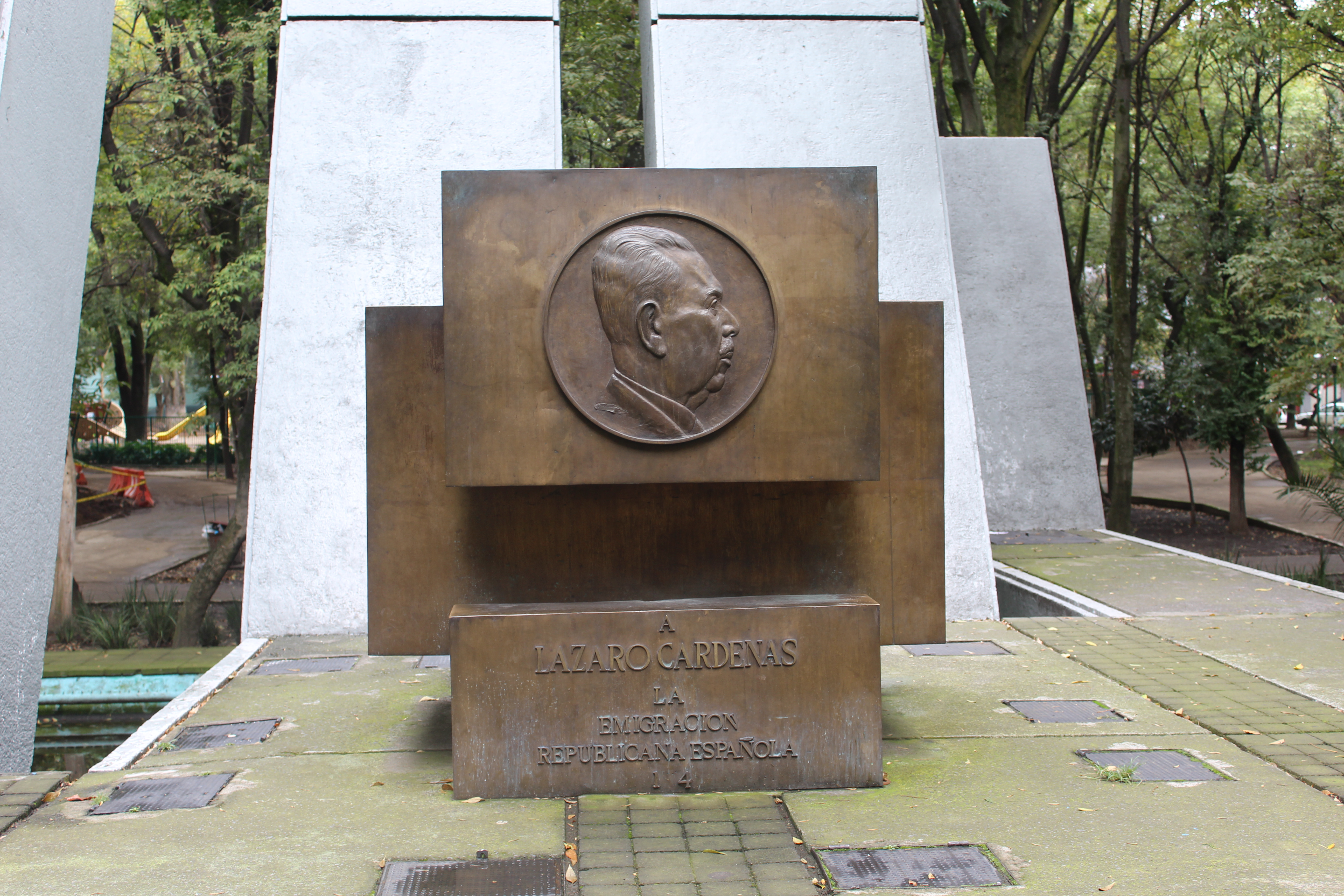 Located in Mexico City. Monument of Lazaro Cardenas. In the background you can see the park.